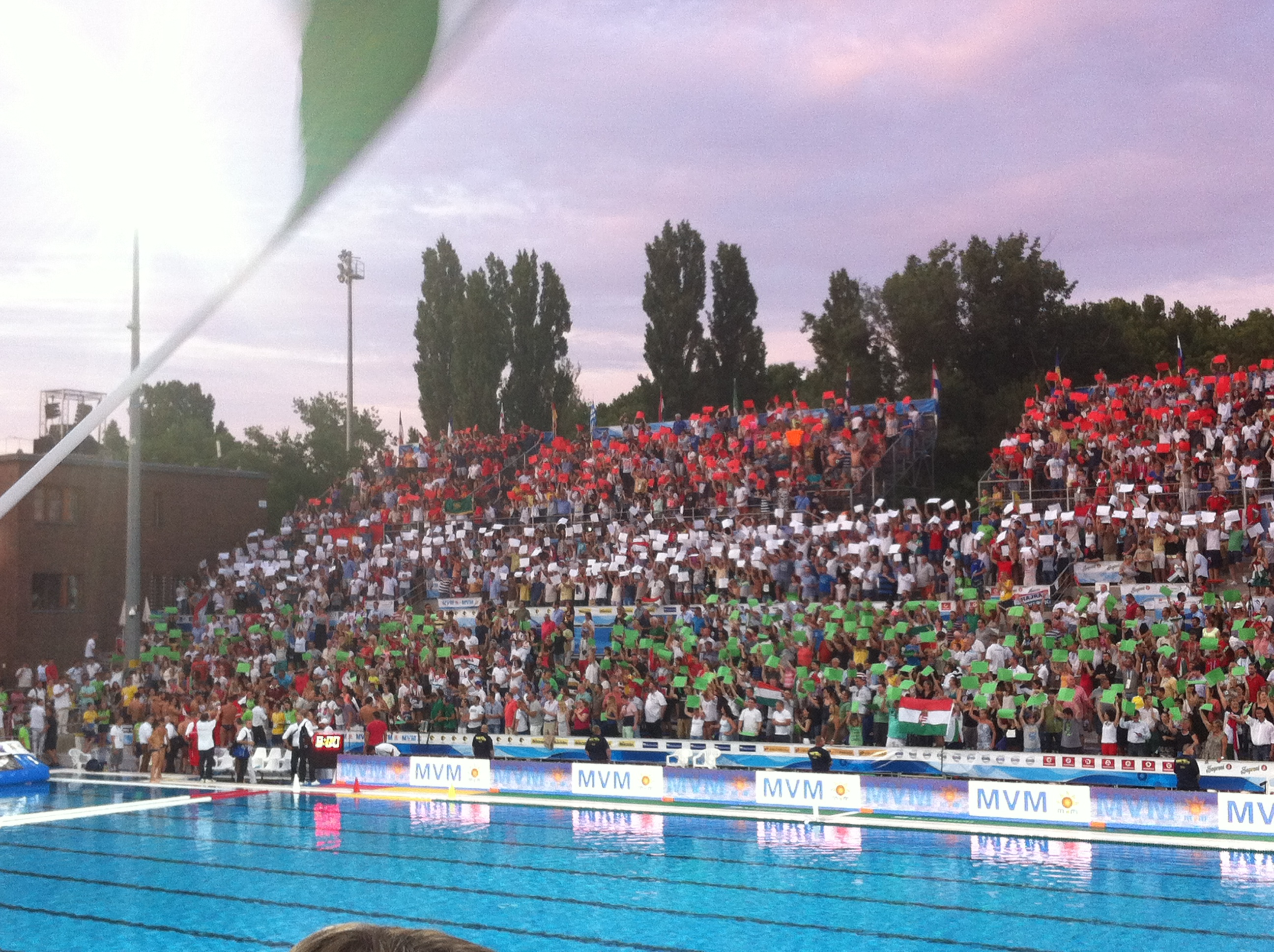 2014 European Water Polo Championship, Hungary vs Italy semifinal game 8:7